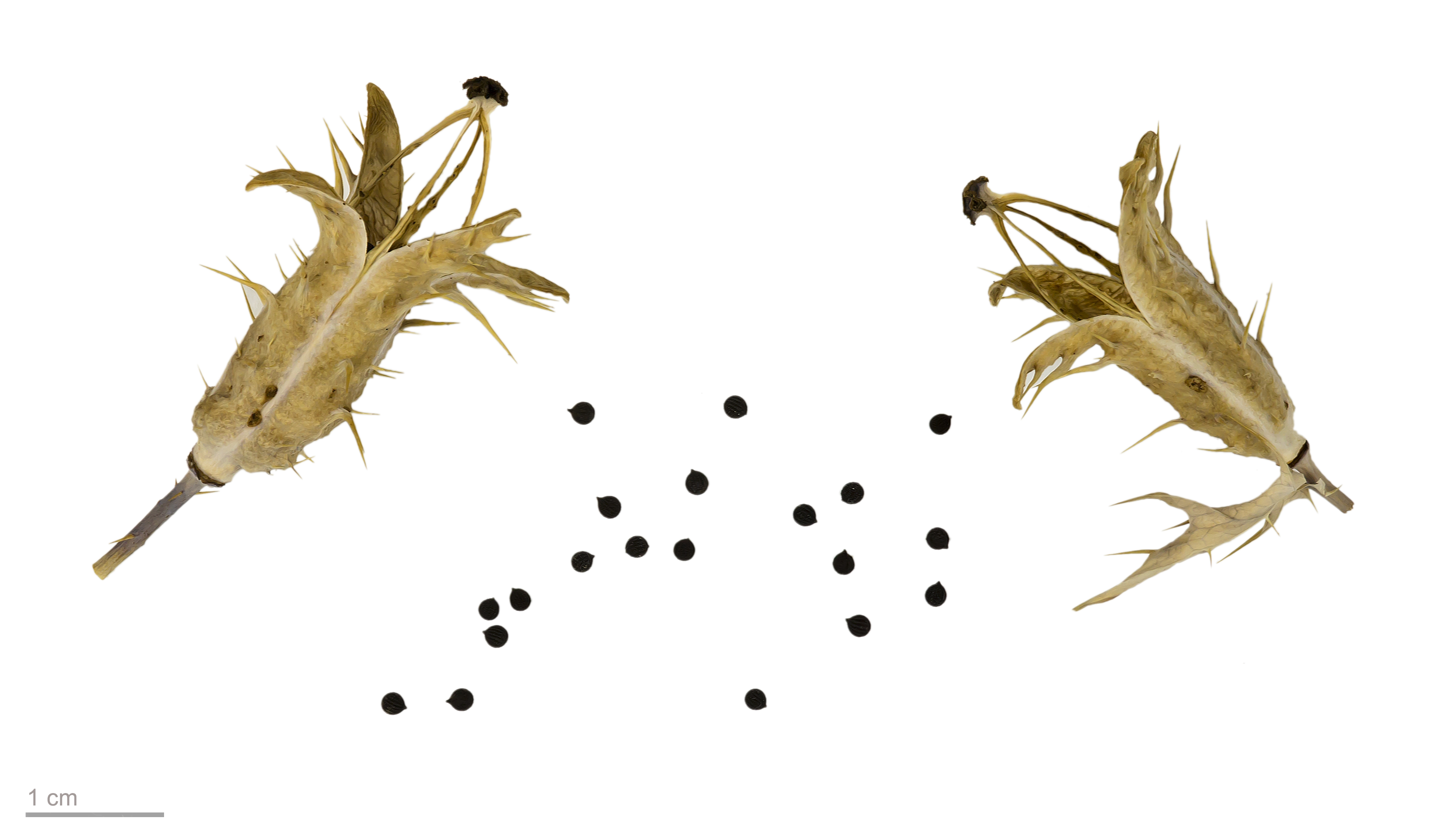 Argemone mexicana, Mexican poppy, seeds